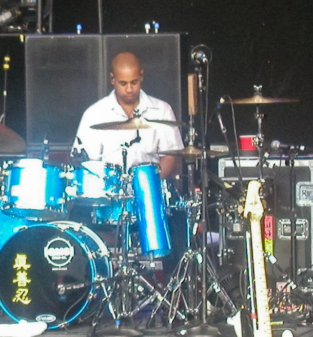 David Bowie & Band @ Area2 Festival, Heathen Tour Backing Band for David Bowie, with Sterling Campbell on the drums, San Francisco